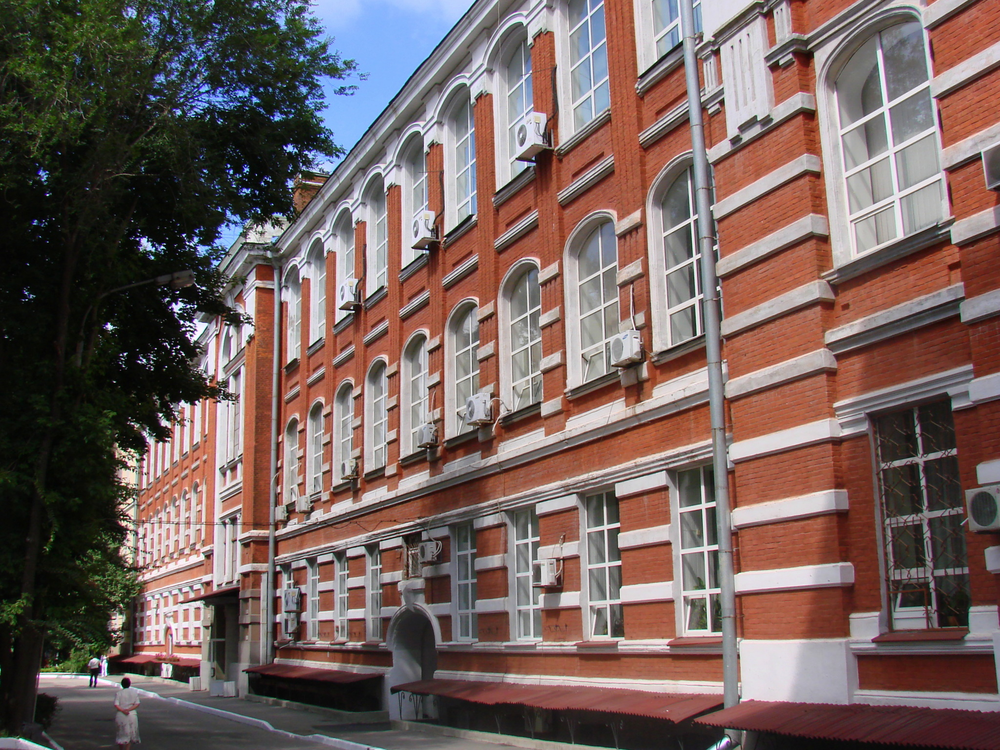 The rear of NMU's first corpus